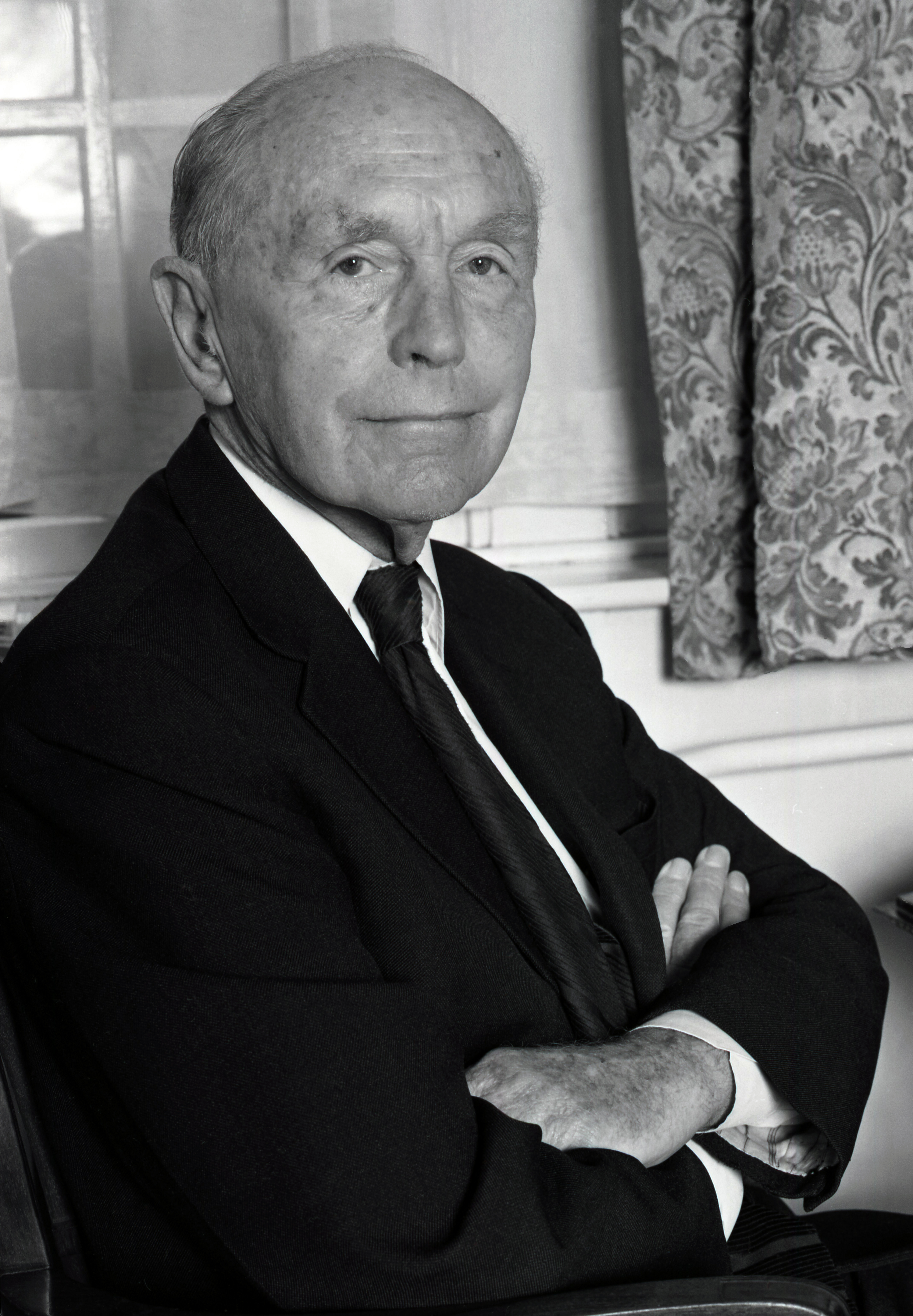 Alec Douglas Home in his apartment Westminster London